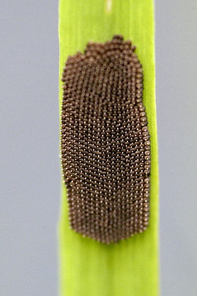 Picture taken in Commanster, Belgian High Ardennes . Species: Sialis fuliginosa eggs